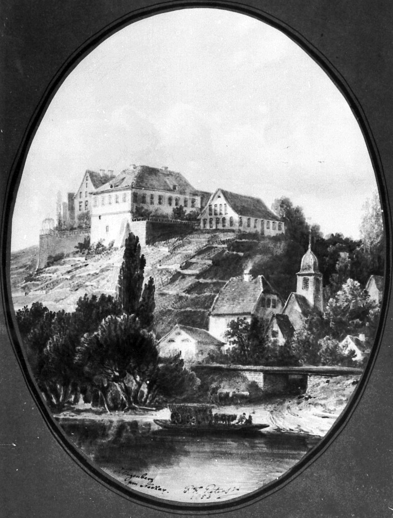 Castle Klingenberg near Heilbronn, 1853 drawing